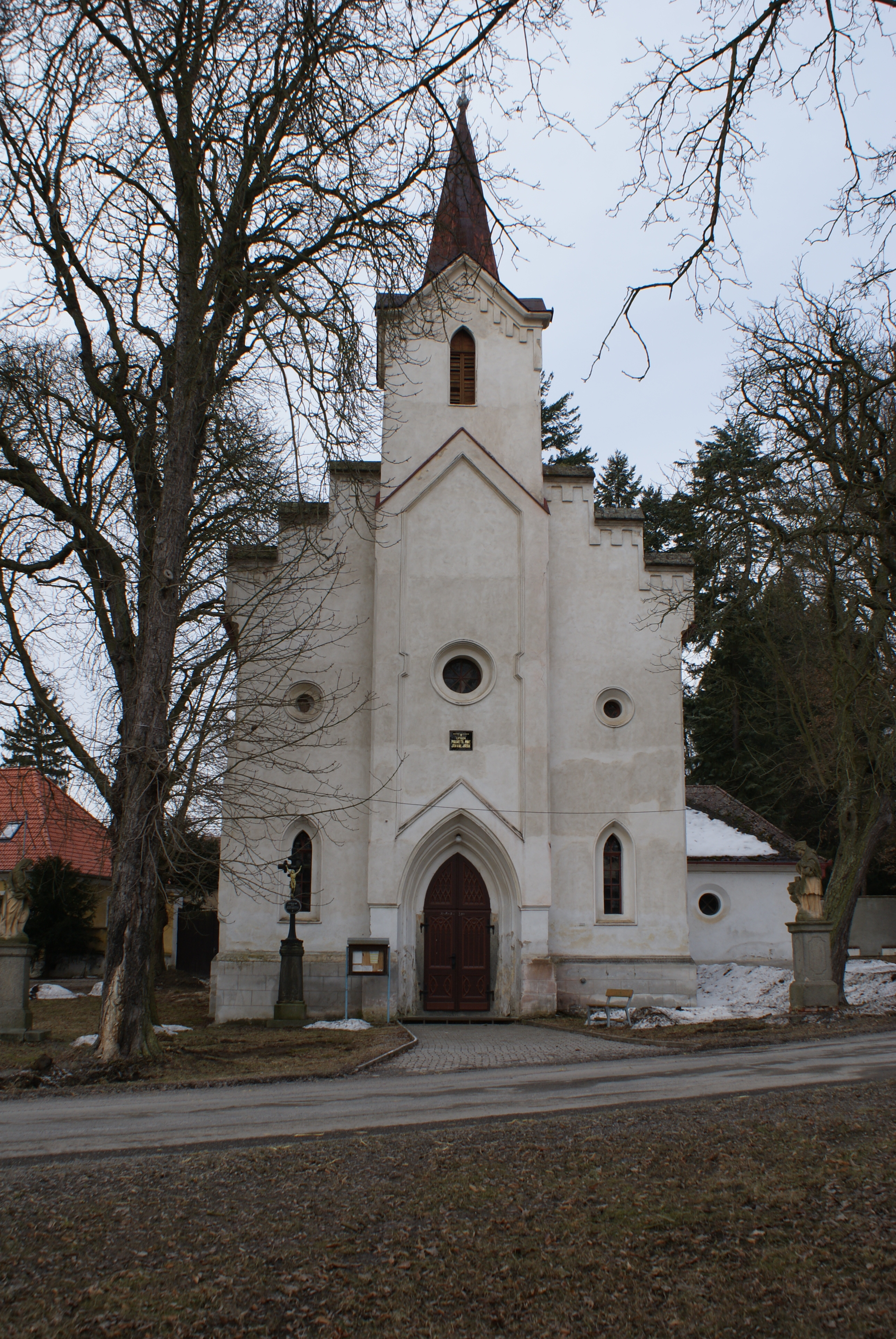 Church of Saint Charles Borromeo in the village of Zalužany, Central Bohemian Region, Czech Republic.